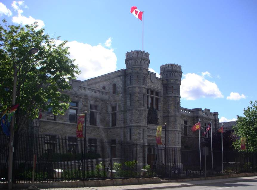 picture of the Royal Canadian Mint building on Sussex Drive in Ottawa, Ontario.